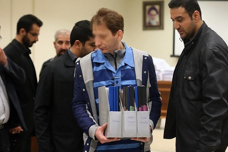 5th session of Babak Zanjani's court.